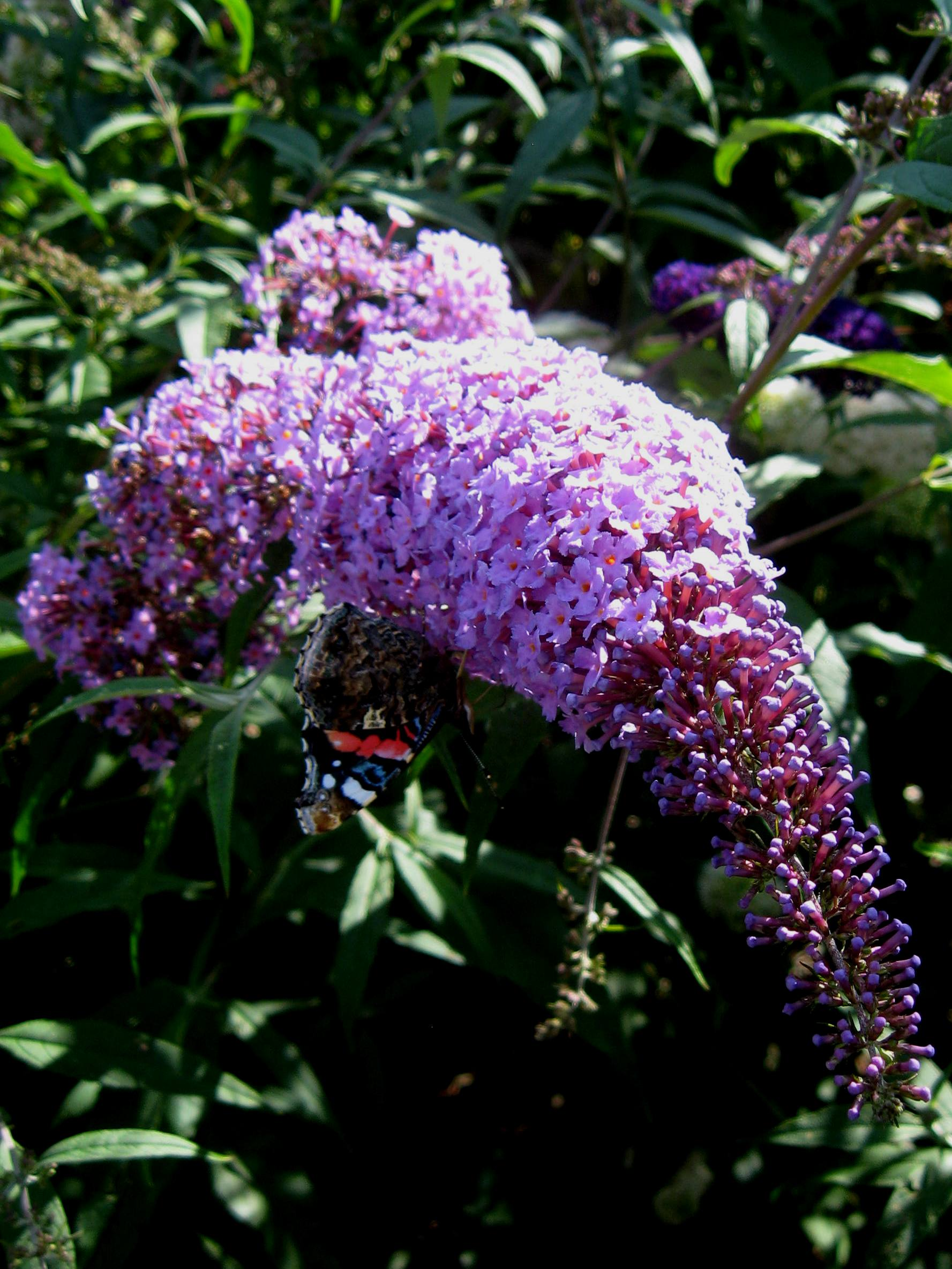 Photo of Buddleja cultivar taken at Longstock Park Nursery, UK, NCCPG national collection holder